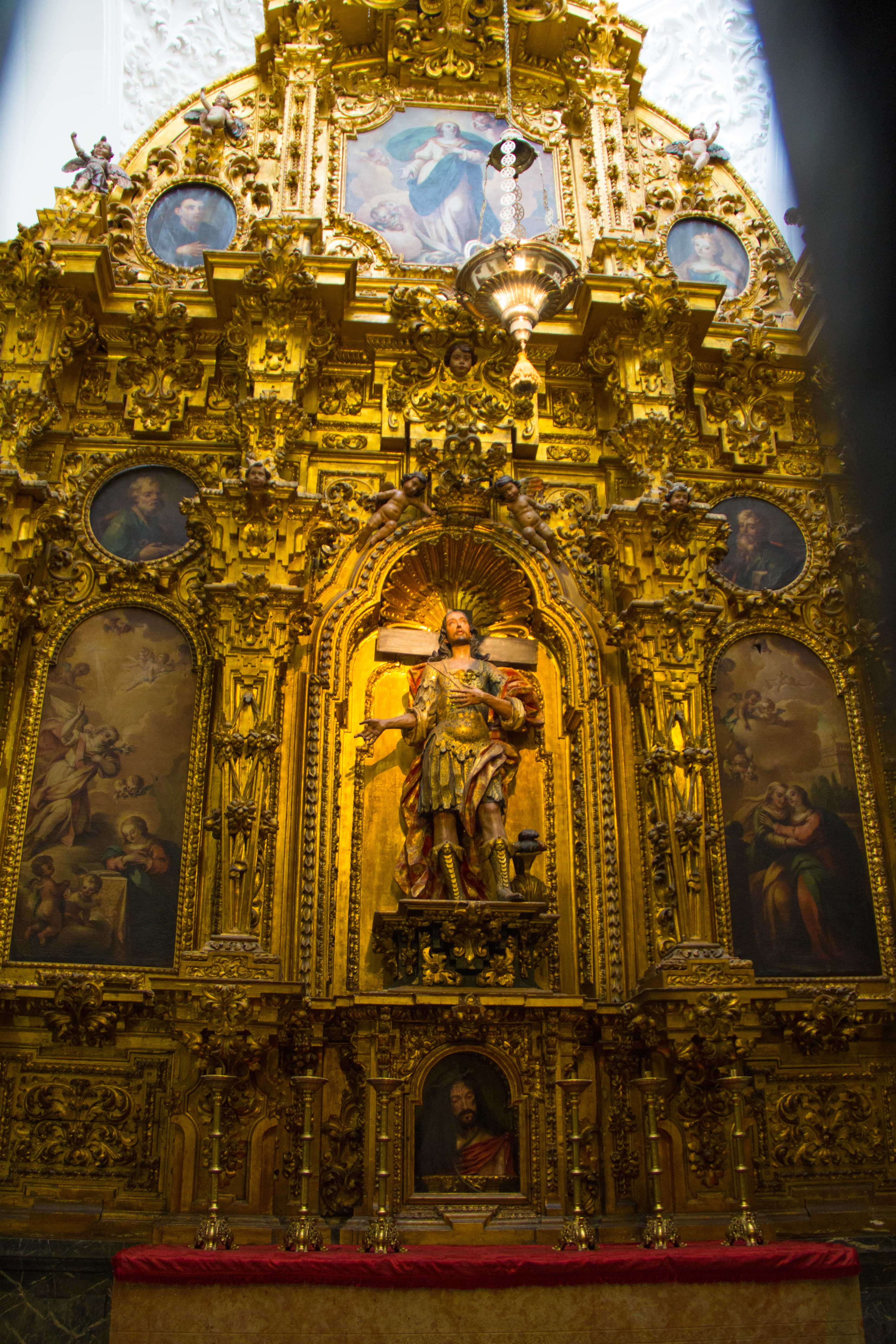 Córdoba, Spain.